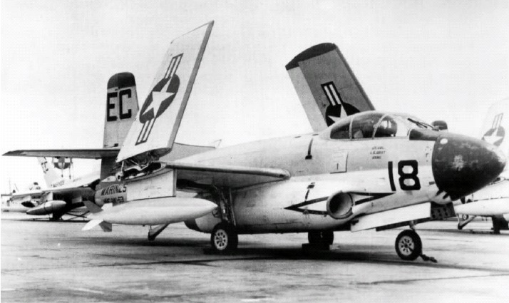 A U.S. Marine Corps Douglas F3D-2 Skyknight fighter of Marine all-weather fighter squadron VMF(AW)-531 in late 1957. The plane was the personal plane of the squadron commander LtCol. Gordon E. Gray. Note that the F3D's replacement, the Douglas F4D-1 Skyray is visible in the background.